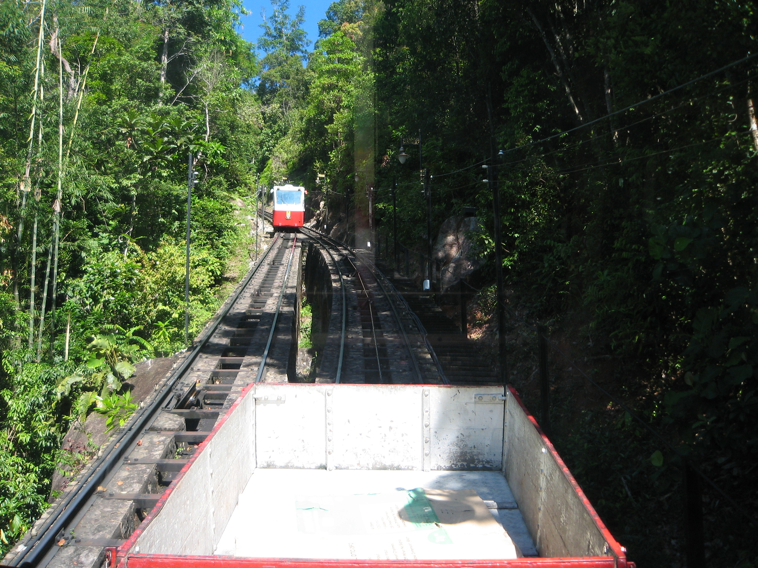 The Penang Hill Railway, which climbs Penang Hill from Air Itam, near George Town on the island of Penang in Malaysia.